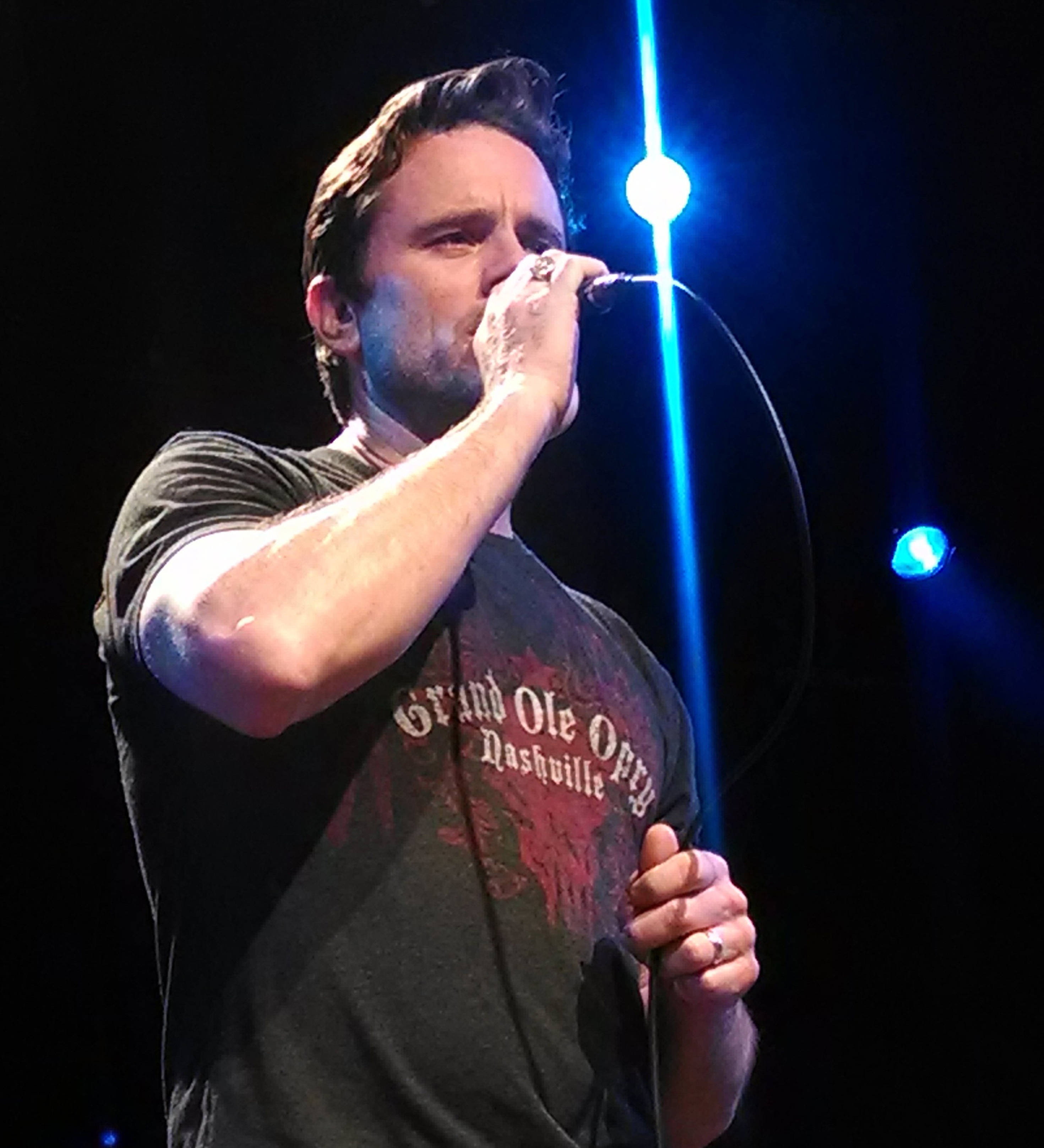 Esten in 2014, performing in New York.